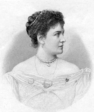 American opera singer Lillian Nordica (1857-1914) by August Weger (1823-1892).